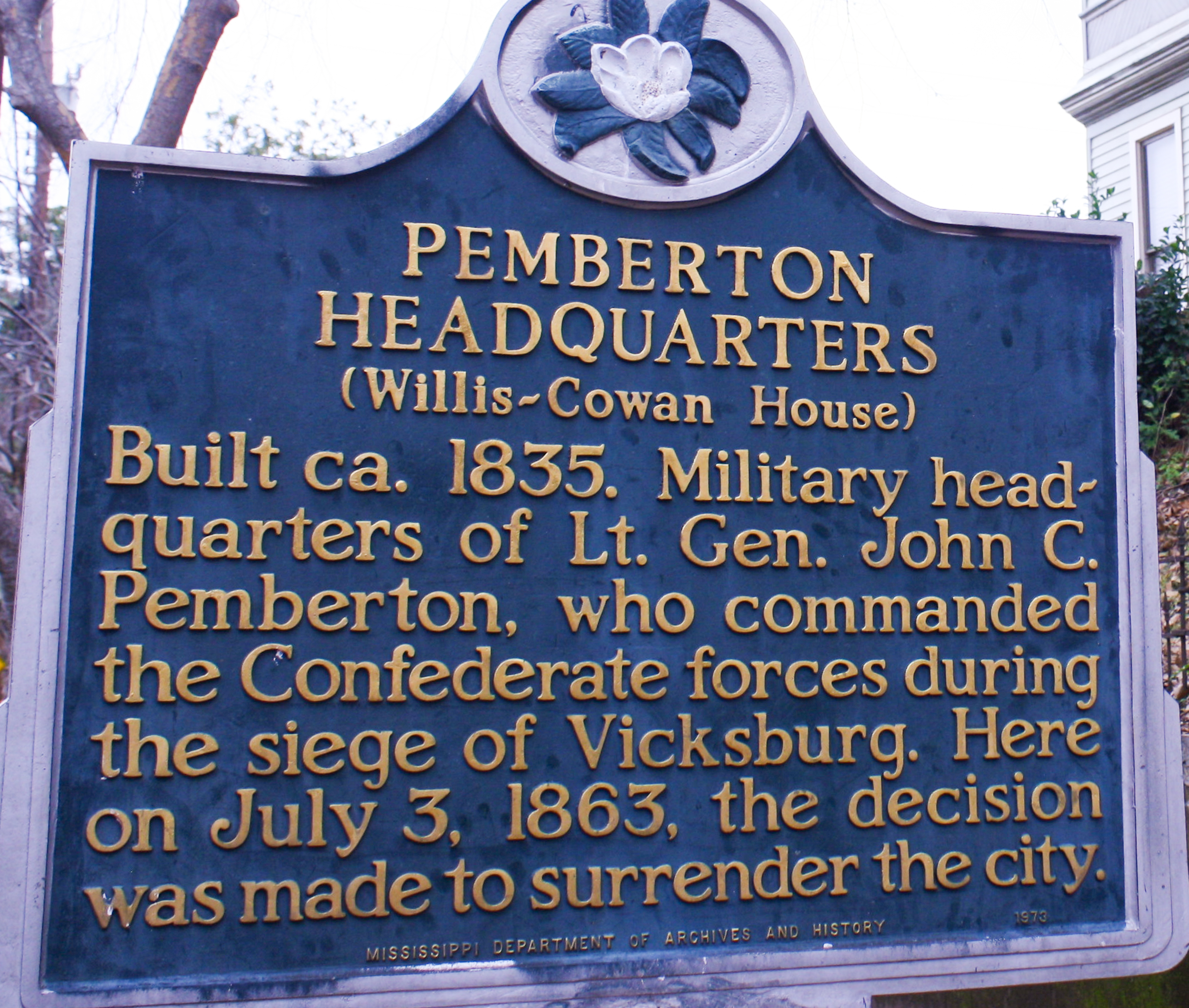 Sign showing Lt-Gen Pemberton's HQ in Vicksburg, Mississippi.